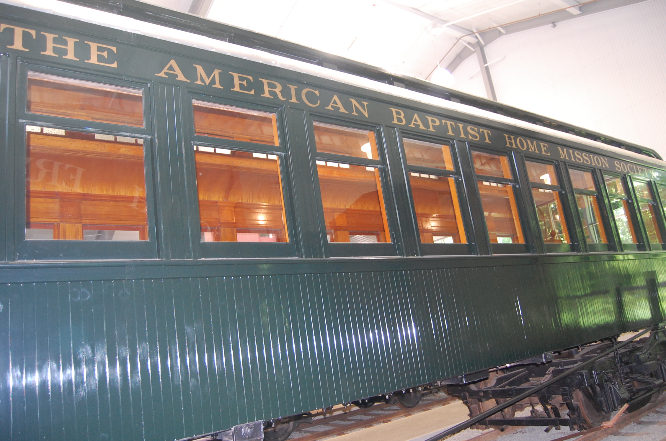 Messenger of Peace Chapel Car is on the National Registry of Historic Places (NRHP #08000998)